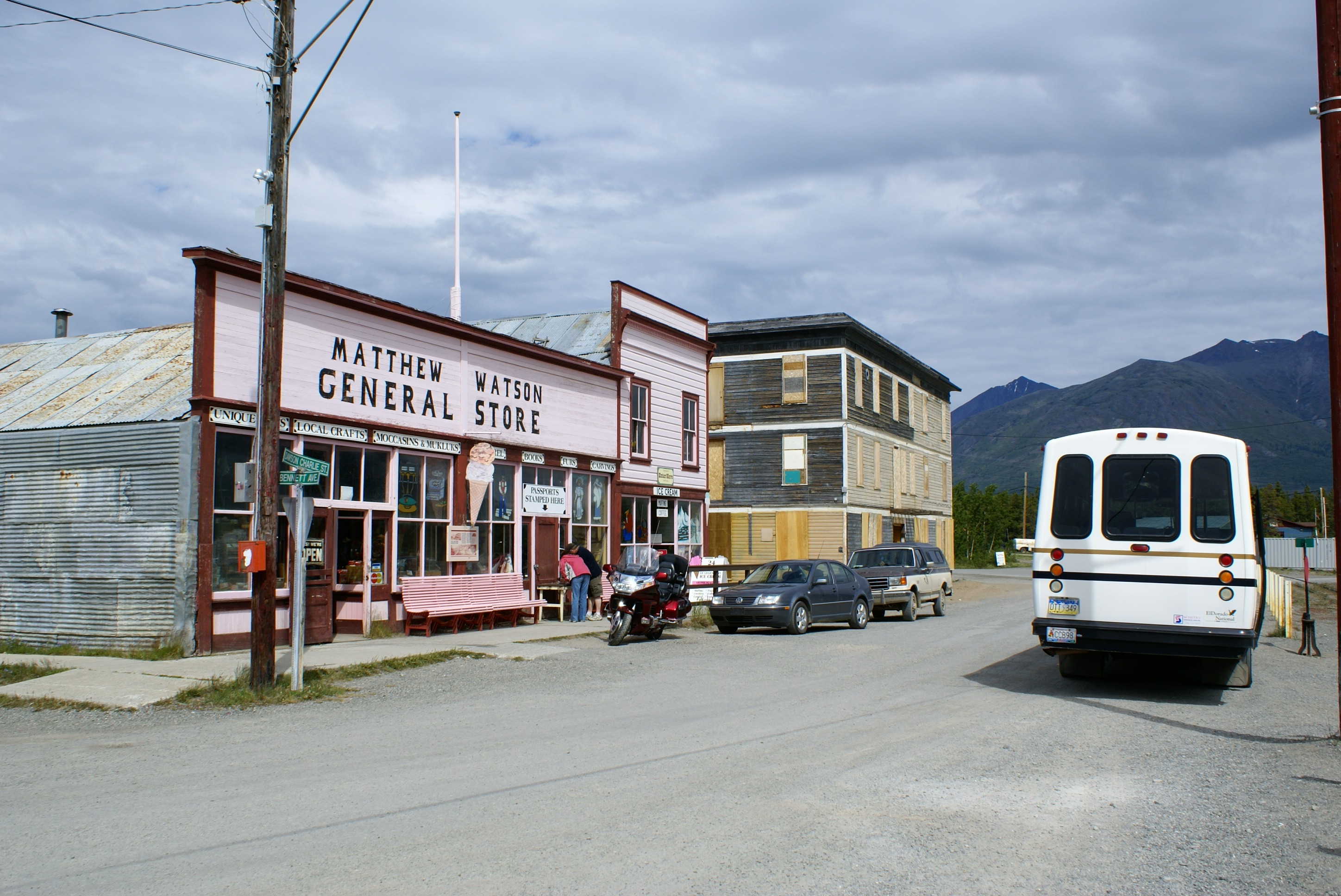 Carcross, Yukon Territory, Canada